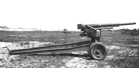 75-mm T3 field gun